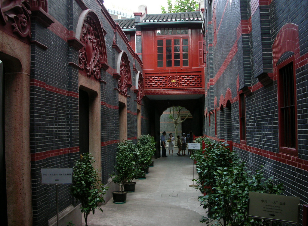 Site of the First National Congress of the Communist Party of China